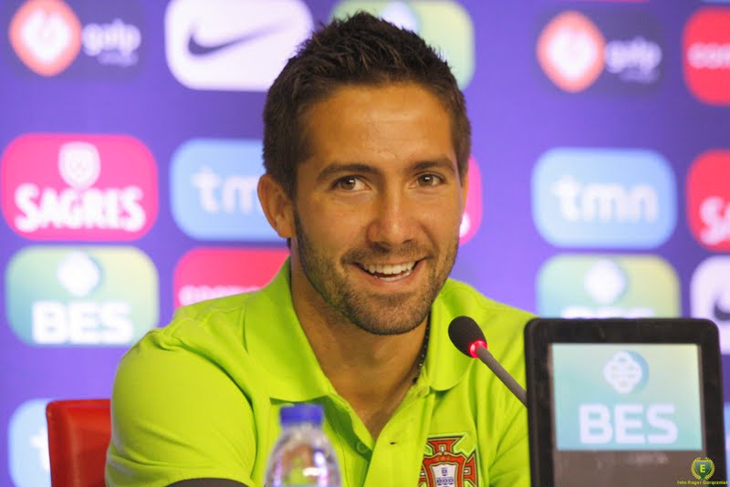 João Moutinho in press conference in Opalenica.